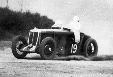 The MG Magna of Les Jennings contesting the 1933 Australian Grand Prix. Riding mechanic John Hunter is balancing the car as Jennings turns a corner. The pair went on to place third in the race.